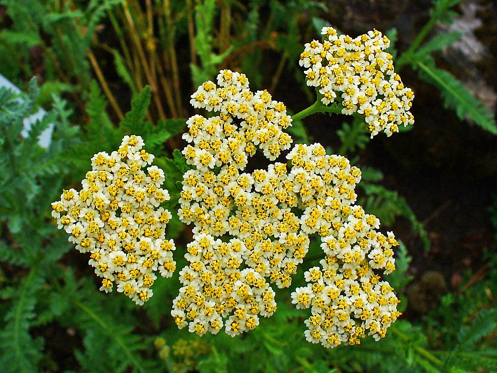 Achillea clypeolata, Asteraceae, Moonshine Yarrow, inflorescence; Botanical Garden KIT, Karlsruhe, Germany.